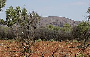 November 2003